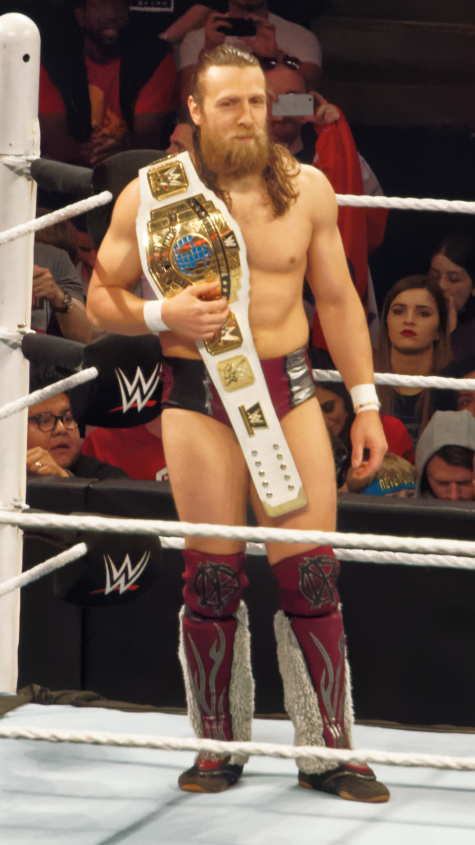 Daniel Bryan, as the WWE Intercontinental Champion, in the ring during a WWE Raw taping on March 30, 2015.